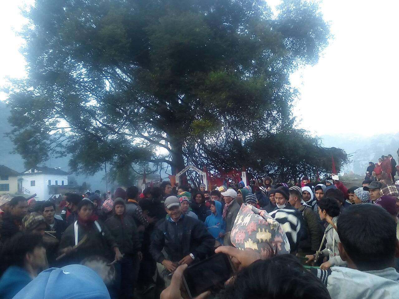 चड्यौली स्थान परिसर